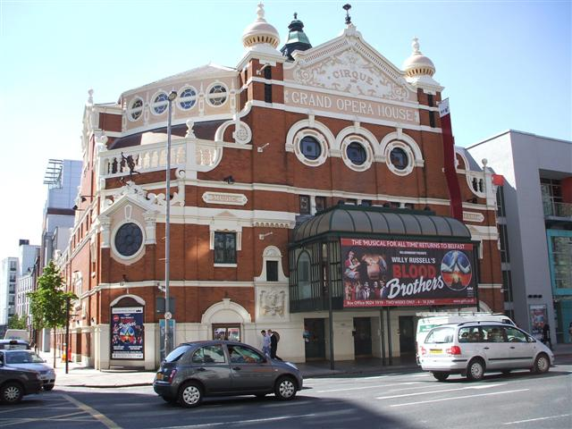 Grand Opera House, Belfast Located at Great Victoria Street